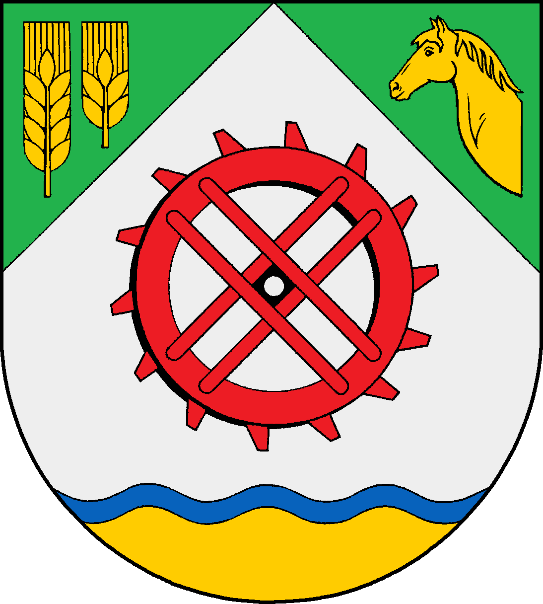 Coat of arms of the municipality Rade b. Hohenwestedt in Schleswig-Holstein, Germany.